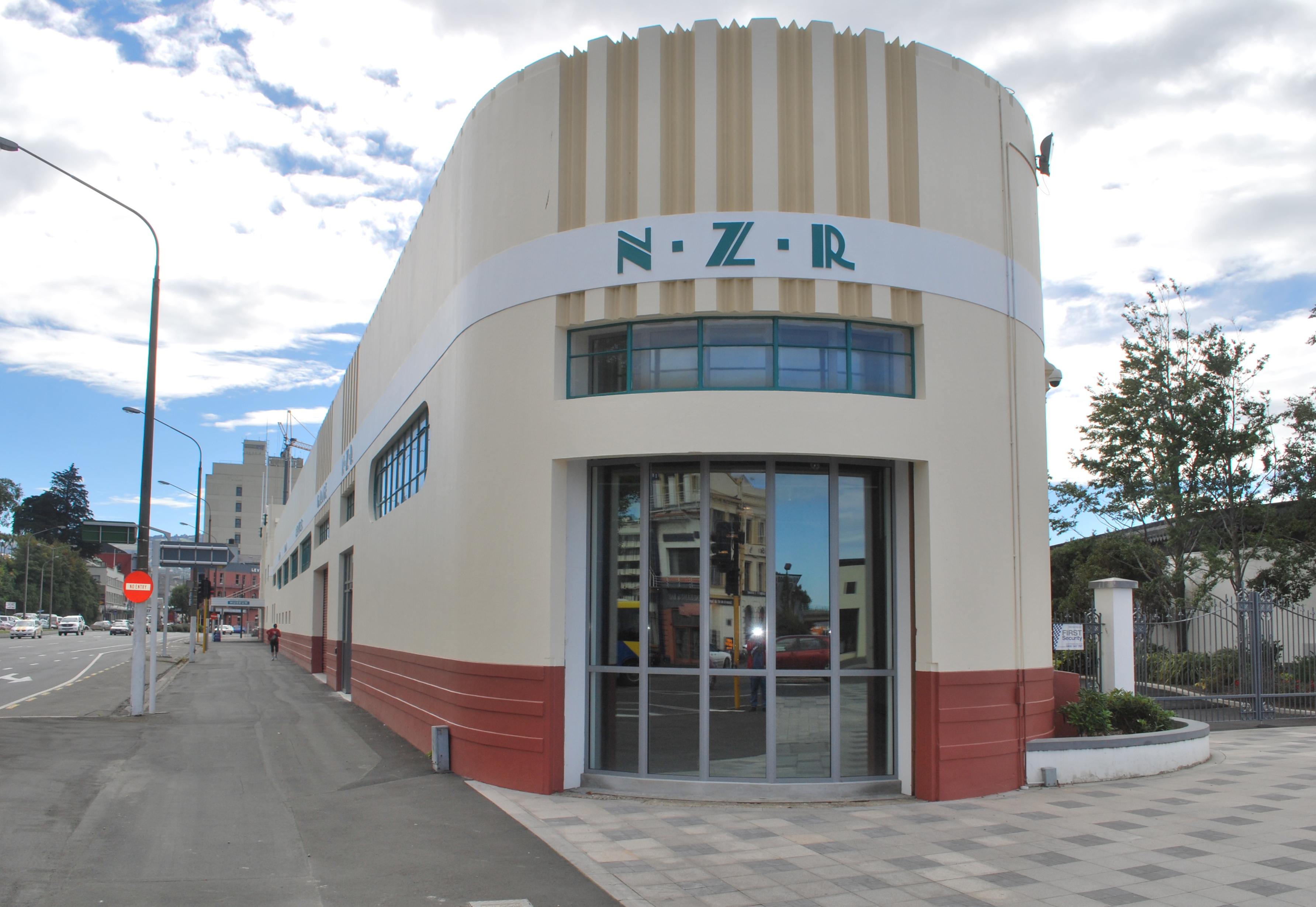 NZR building (museum?) at Dunedin, New Zealand